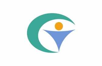 Flag of Gujo Gifu